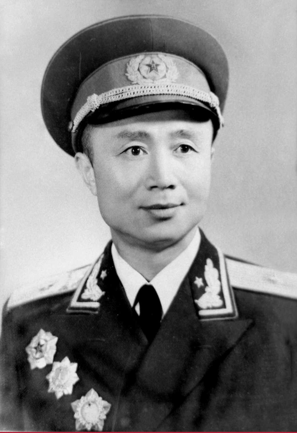 It's a portrait photo of my grandfather, taken when he was young by family members. The family has the full ownership of the photo.